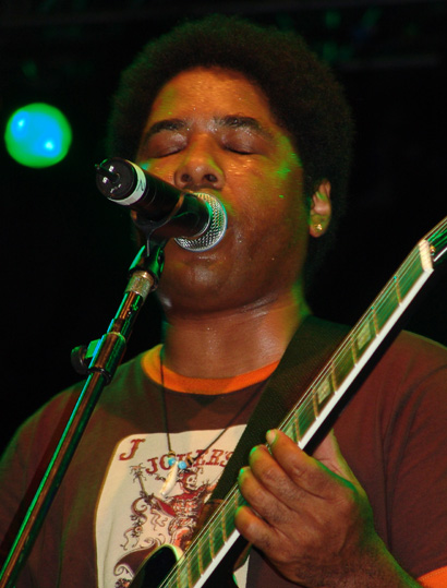 Chris Thomas King at the Koh Samui Music Festival 2005, Koh Samui, Surat Thani Province, Thailand